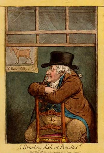 Sir Frank Standish. Caricature by James Gillray (1856-1815) Artist has been dead for 197 years.